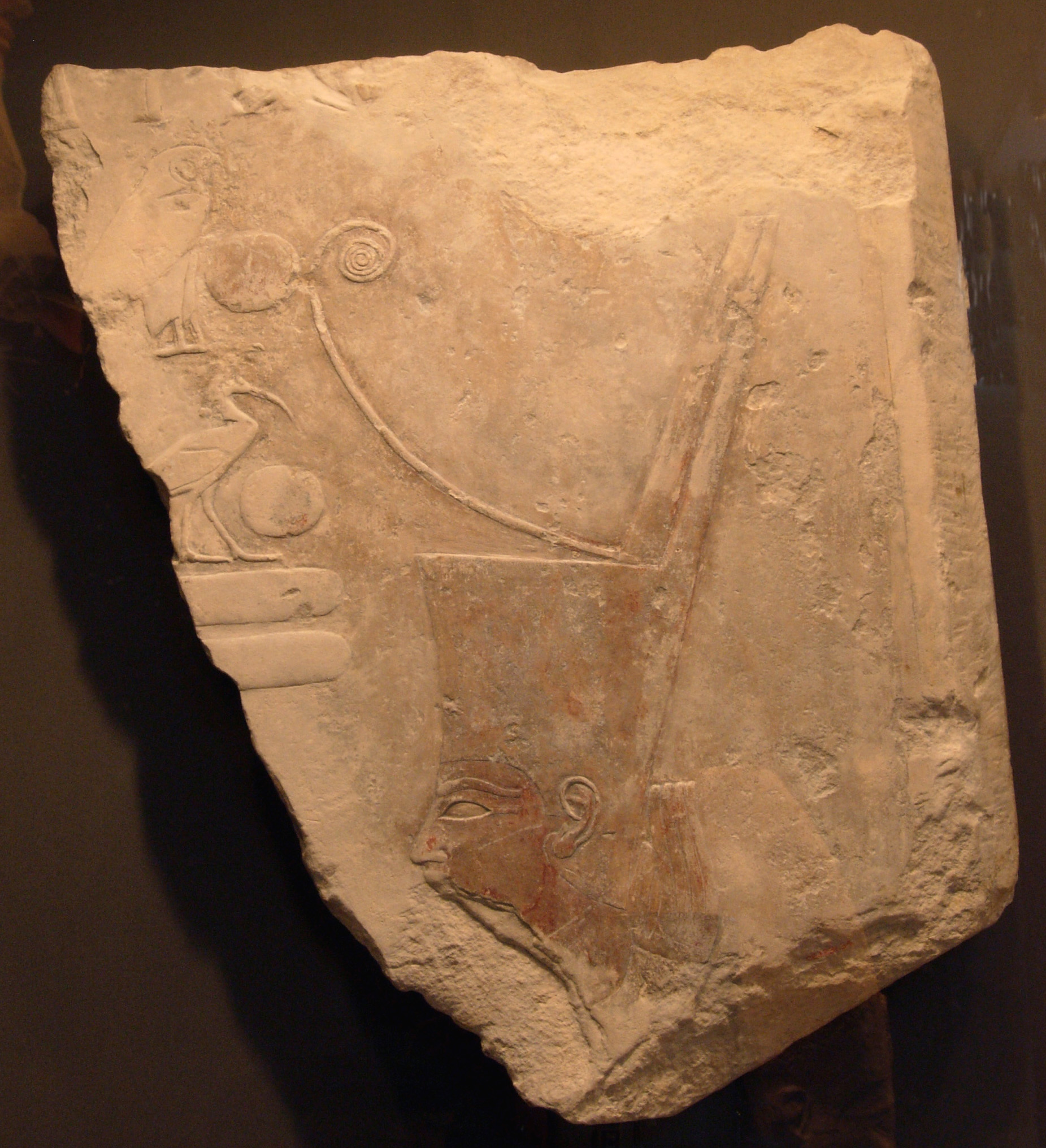 Relief, King Ahmose, Red Crown